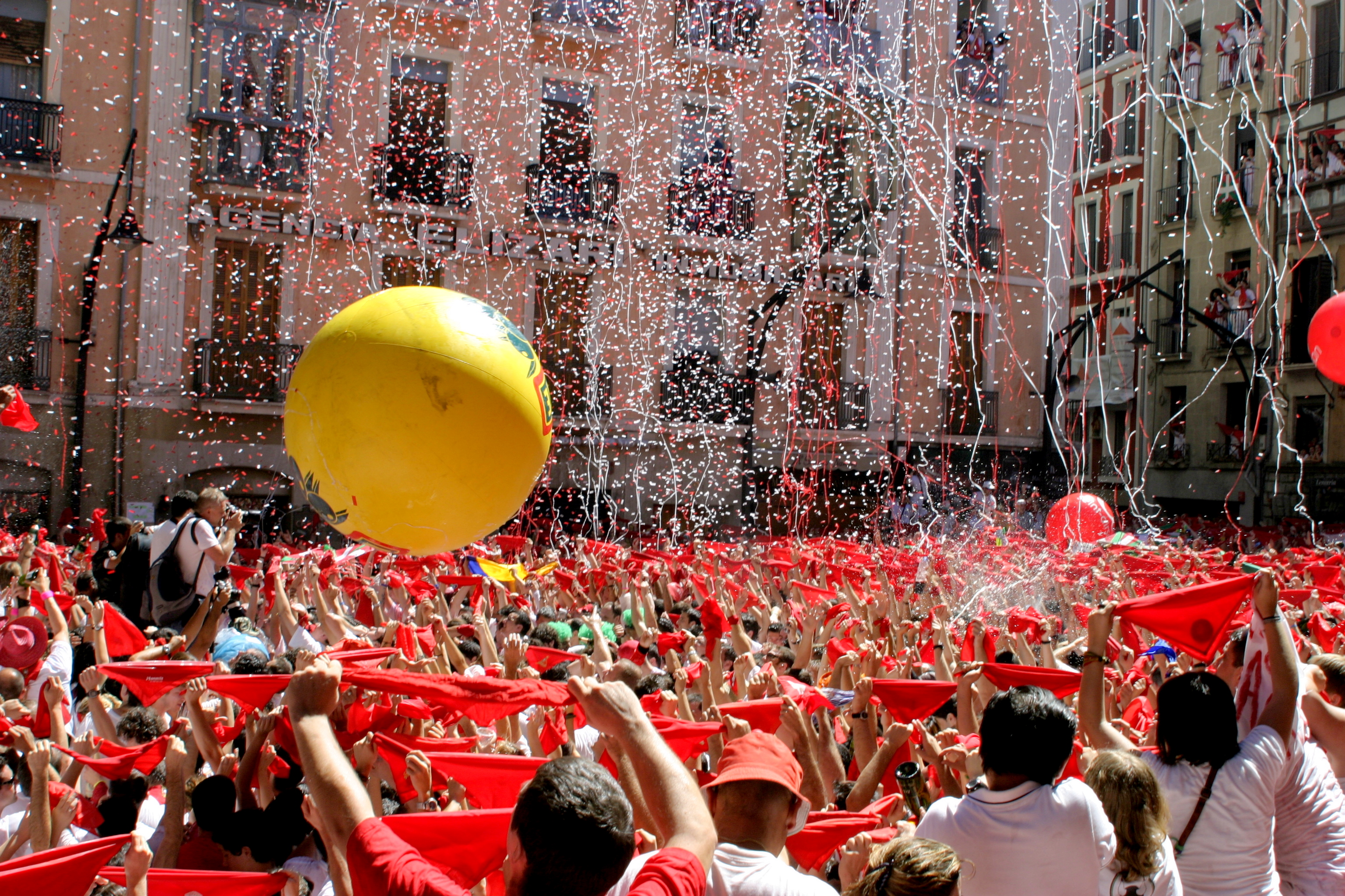 Seconds before the beginning of the San Fermín Festival in Pamplona (Spain). Town hall Square. Everybody holds his red handkerchief above his head until a firework is exploded at 12 pm; they then put it around the neck